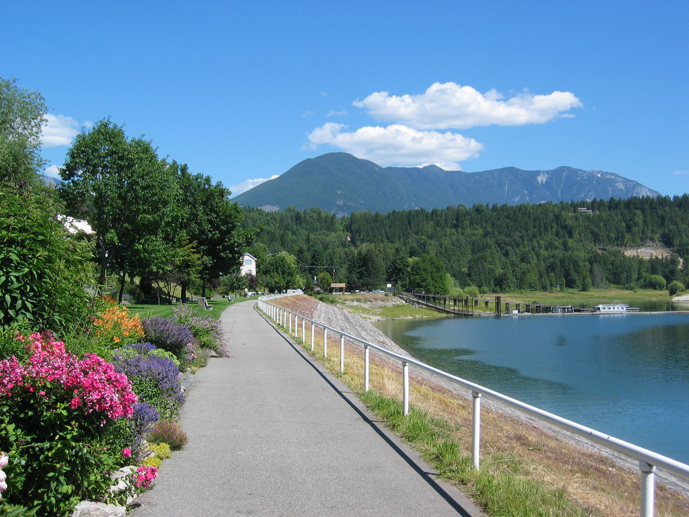 Waterfront promenade along Arrow Lake in Nakusp, BC, Canada